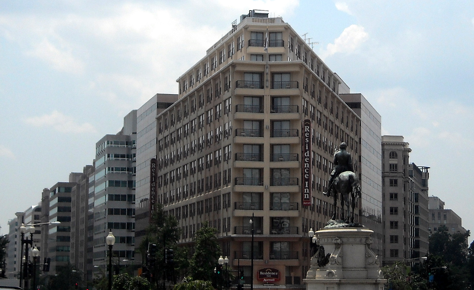 Looking south on Vermont Avenue NW and 14th Street NW at Thomas Circle in Washington, D.C. The statue of George Henry Thomas is in the foreground.